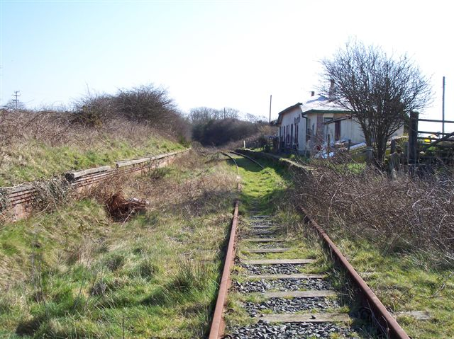 Llangwyllog station, Anglesey Amlwch, on the north coast of the Island of Anglesey, is today a sleepy seaside resort but was once the copper mining capital of the world with the biggest seaport in Wales. The Anglesey Central Railway built a 15 mile branch line which opened for passengers in 1867 and in 1953 it was extended one mile to Associated Octel Coy's oil terminal. There were six passenger trains serving Amlwch on weekdays in September 1964 with most of these operating from Bangor but three months later all were withdrawn. In 1993 Associated Octel decided to use road transport and it hasn't seen a train since. There have been proposals to reopen the line for industry and as a heritage line and Sustrans have plans to develop a cycleway alongside the track.